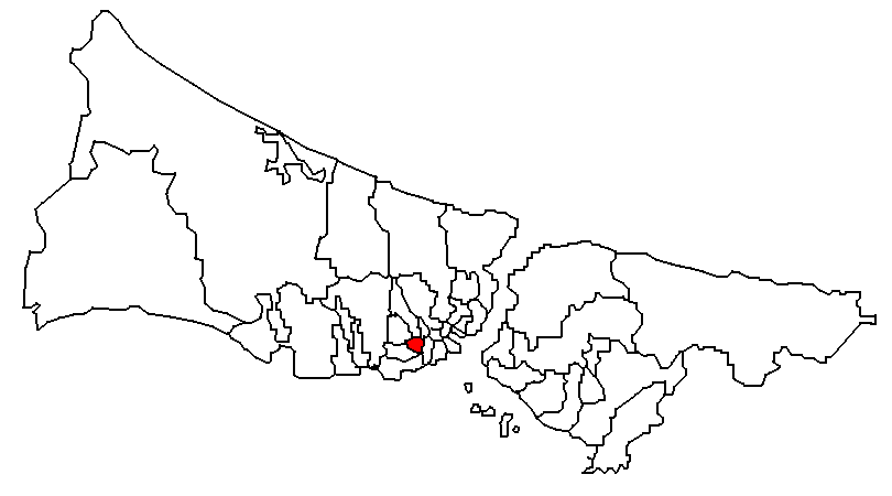 Location of the district of Gungoren on the map of Istanbul